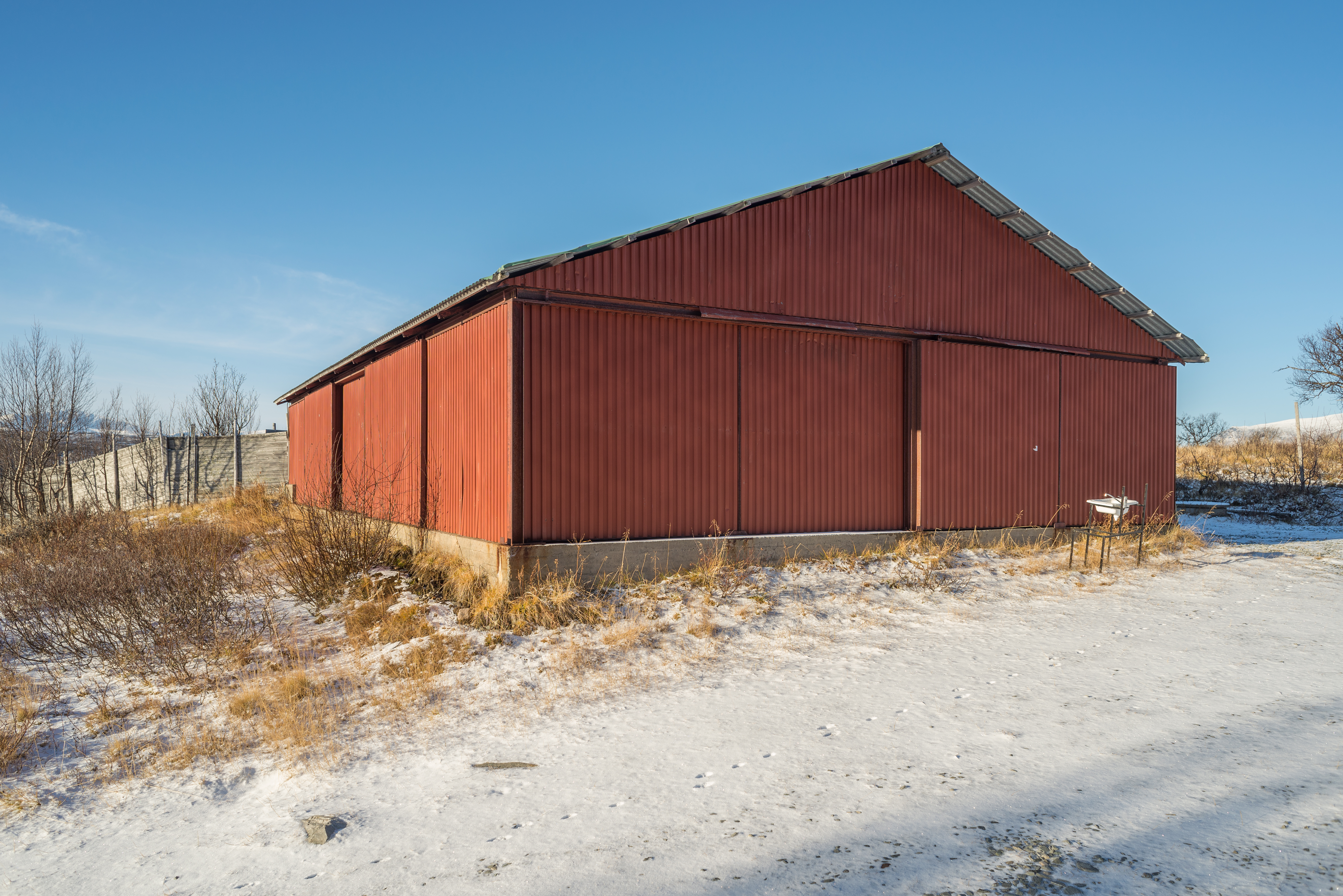 Slaughterhouse at Ljungris, Berg Municipality, Jämtland County. Ljungris is owned by the Sámi (Handöldalens sameby)